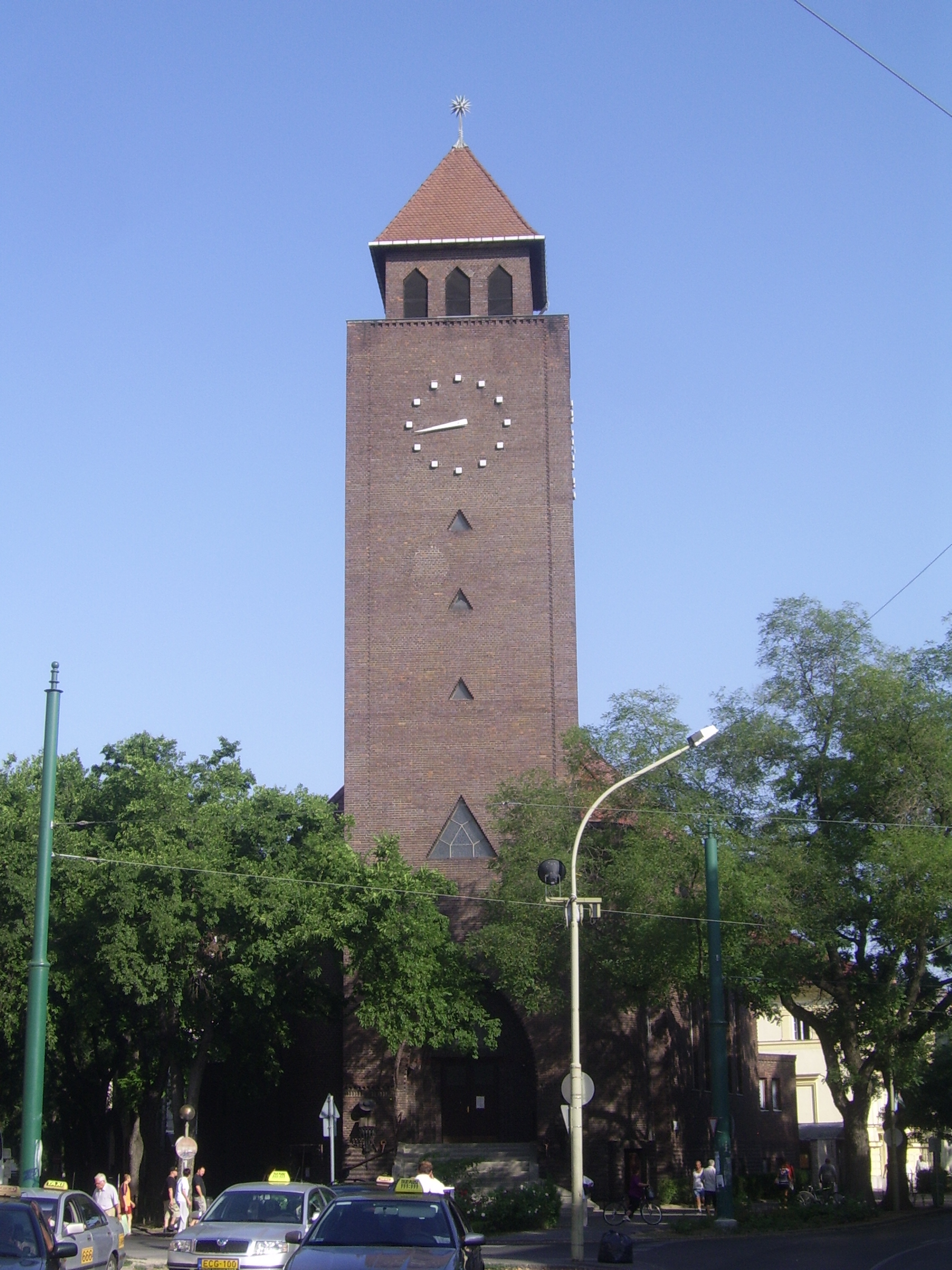 The Új Magyar Hajnal Temploma (en ~ Church of the New Hungarian Dawn) at the Honvéd square in Szeged